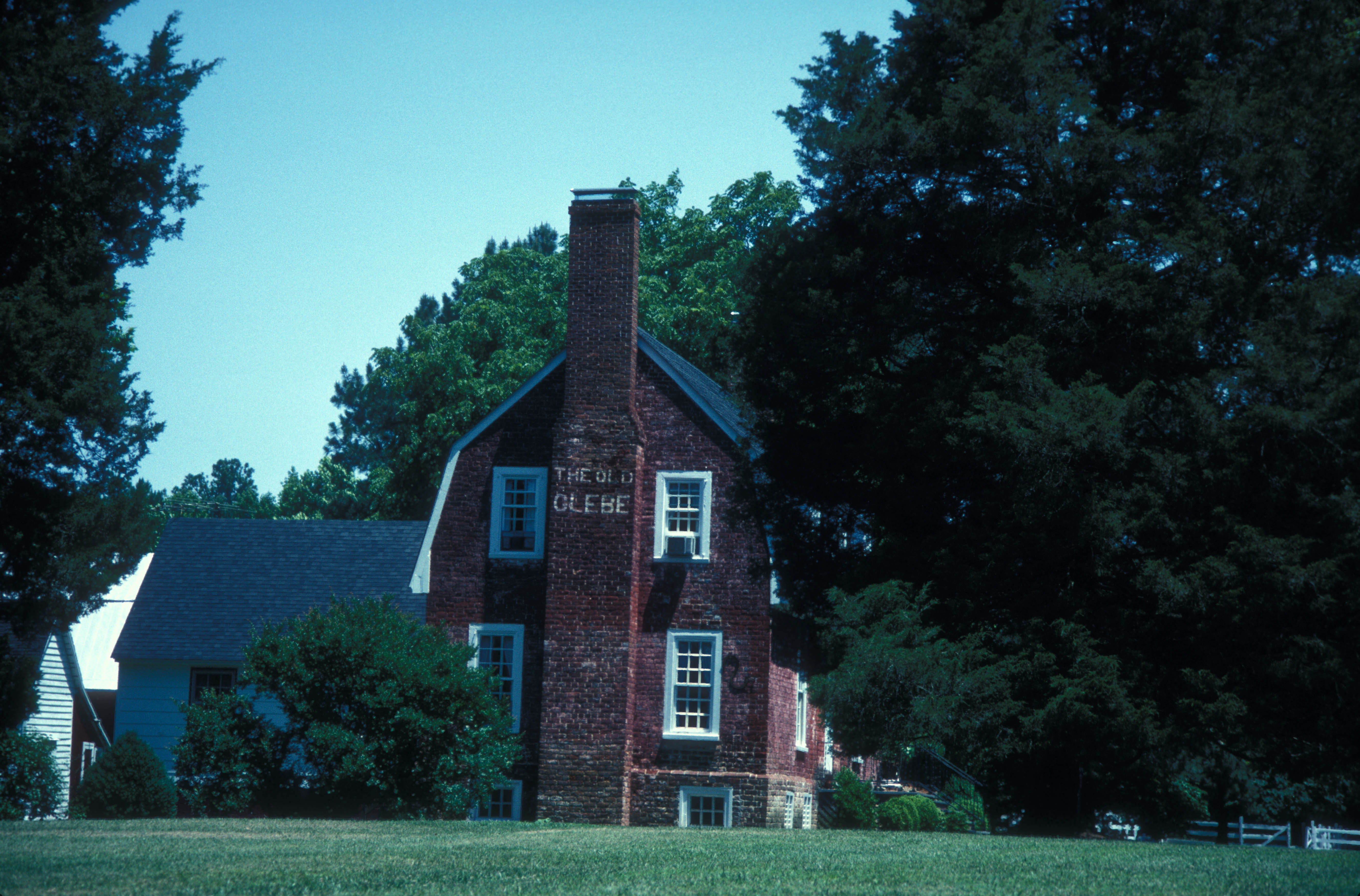 1725-35 GEORGIAN HOME OF REV. JOHN CARGILL